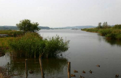 Brabrand Sø (Lake Brabrand) near Århus, Jutland: Looking west from the eastern end